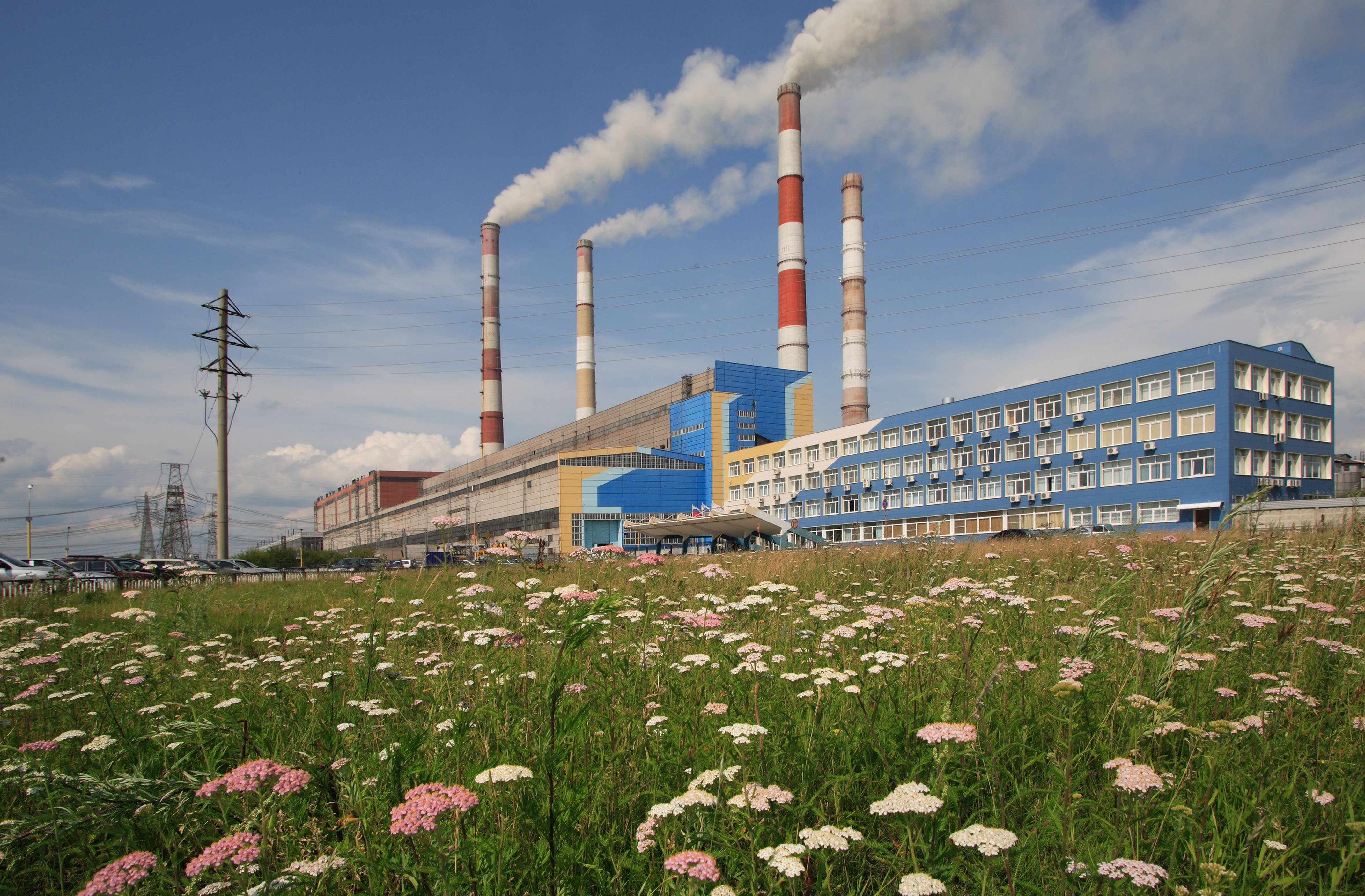 Reftinskaya GRES_nature